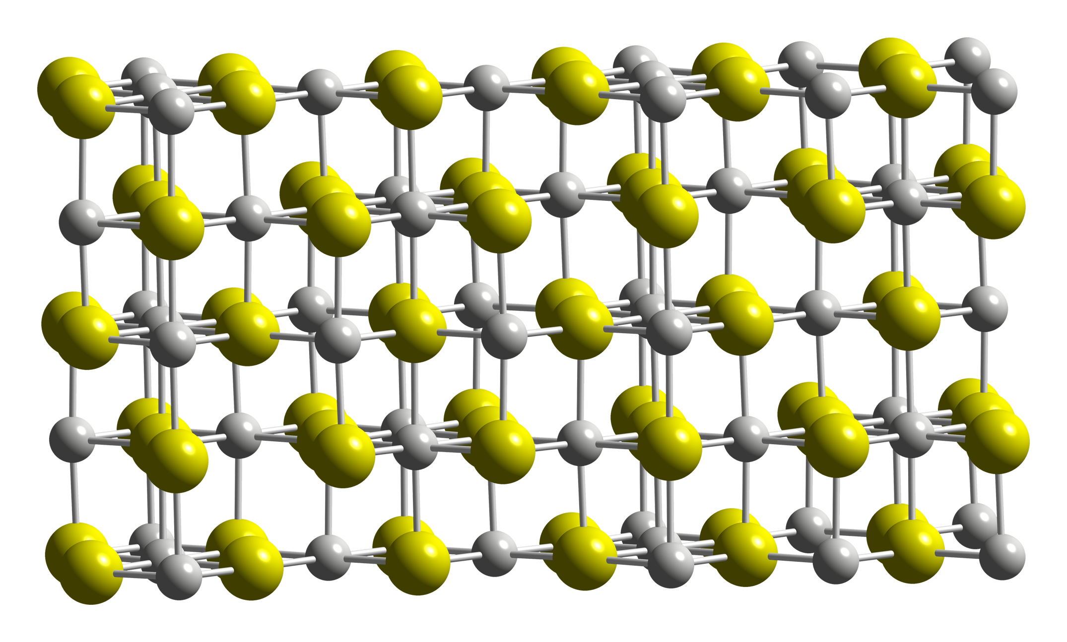 Ball-and-stick model of part of the unit cell of the crystal structure of scandium(III) sulfide, Sc2S3. Colour code: Scandium, Sc: grey Sulfur, S: yellow Crystal structure data from Inorg. Chem. (1964) 3, 1220-1228. Image generated in CrystalMaker 8.3.